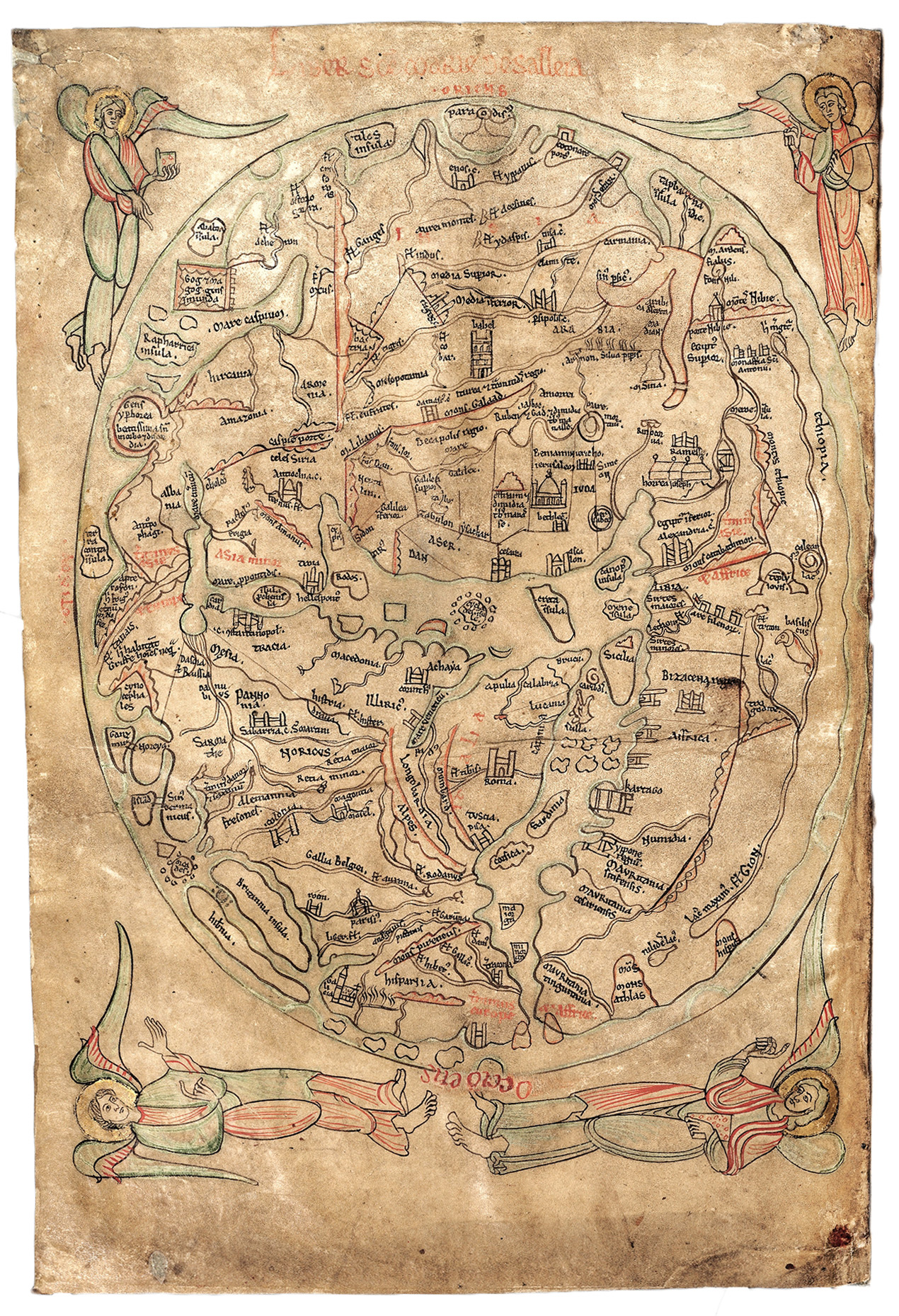 The Sawley Map or Henry of Mainz world map from Imago mundi by Honorius Augustodunensis (Corpus Christi College, Cambridge, MS 66, pt. 1).